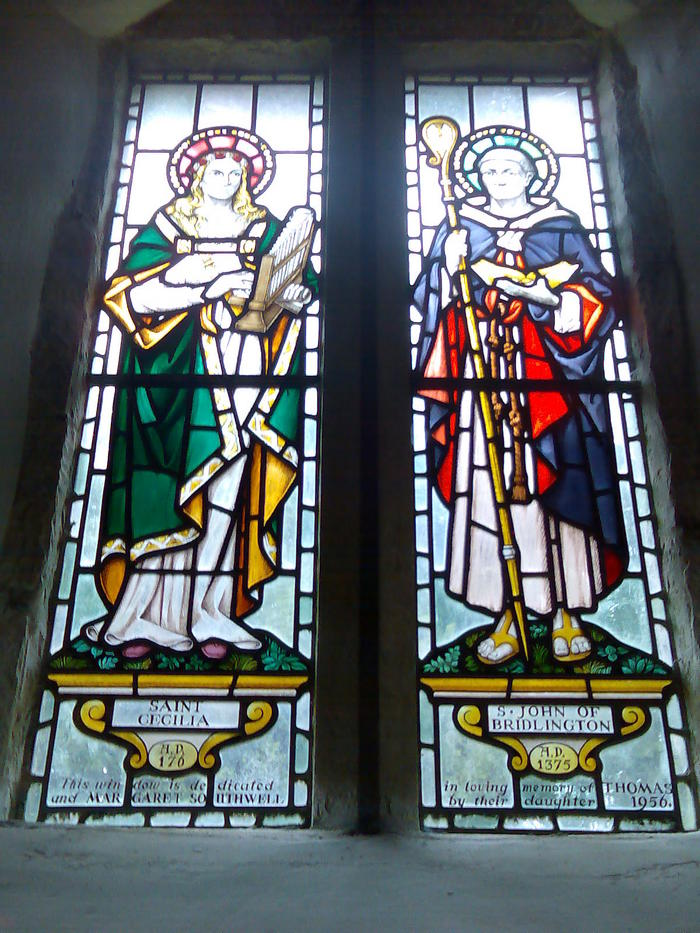 Picture of St John Twenge (John of Bridlington) as depicted in the window at All Saints Church, Thwing, East Riding of Yorkshire, England.